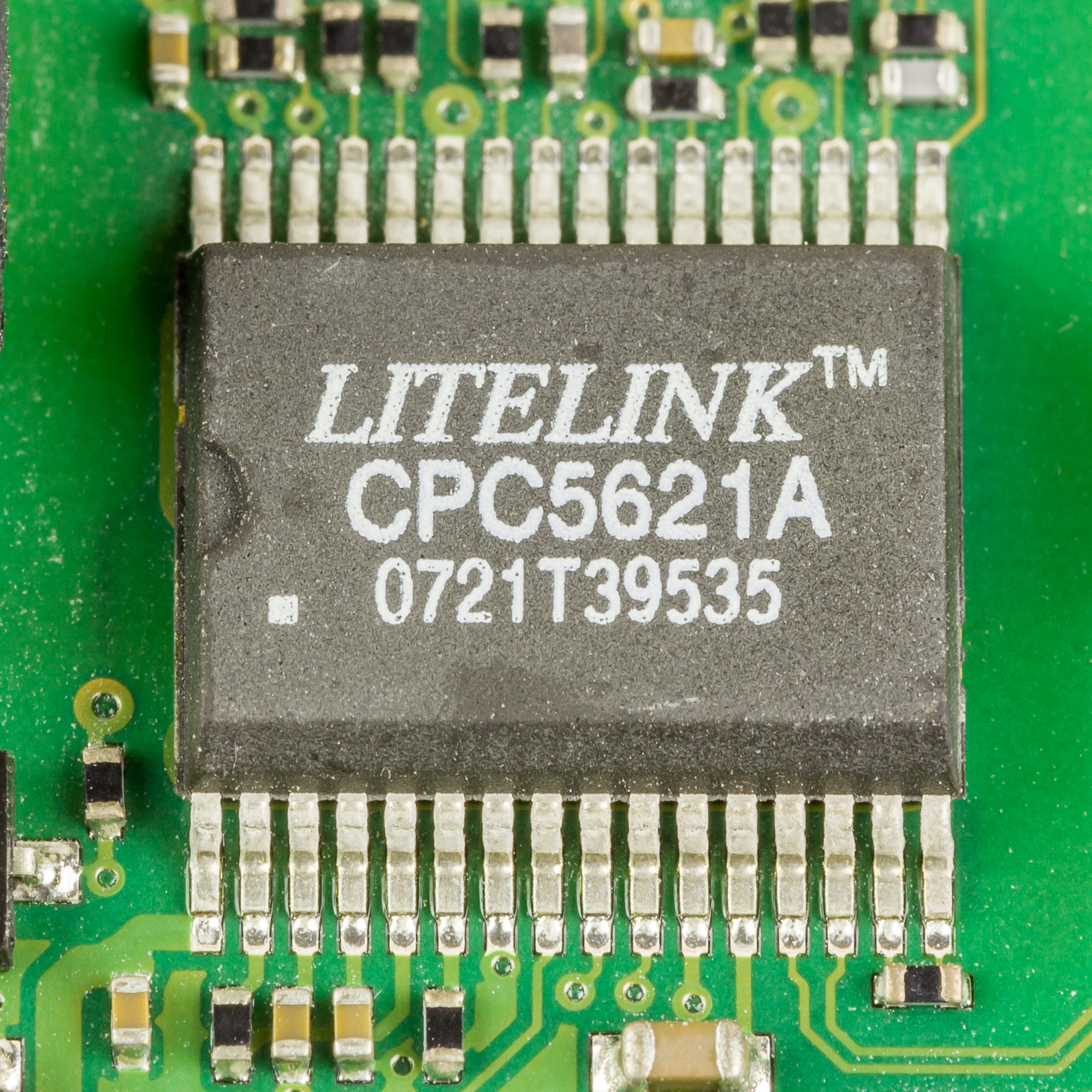 Fritz!Box Fon WLAN 7270 - IXYS Litelink CPC5621A - Phone Line Interface IC (Data access arrangement [DAA])